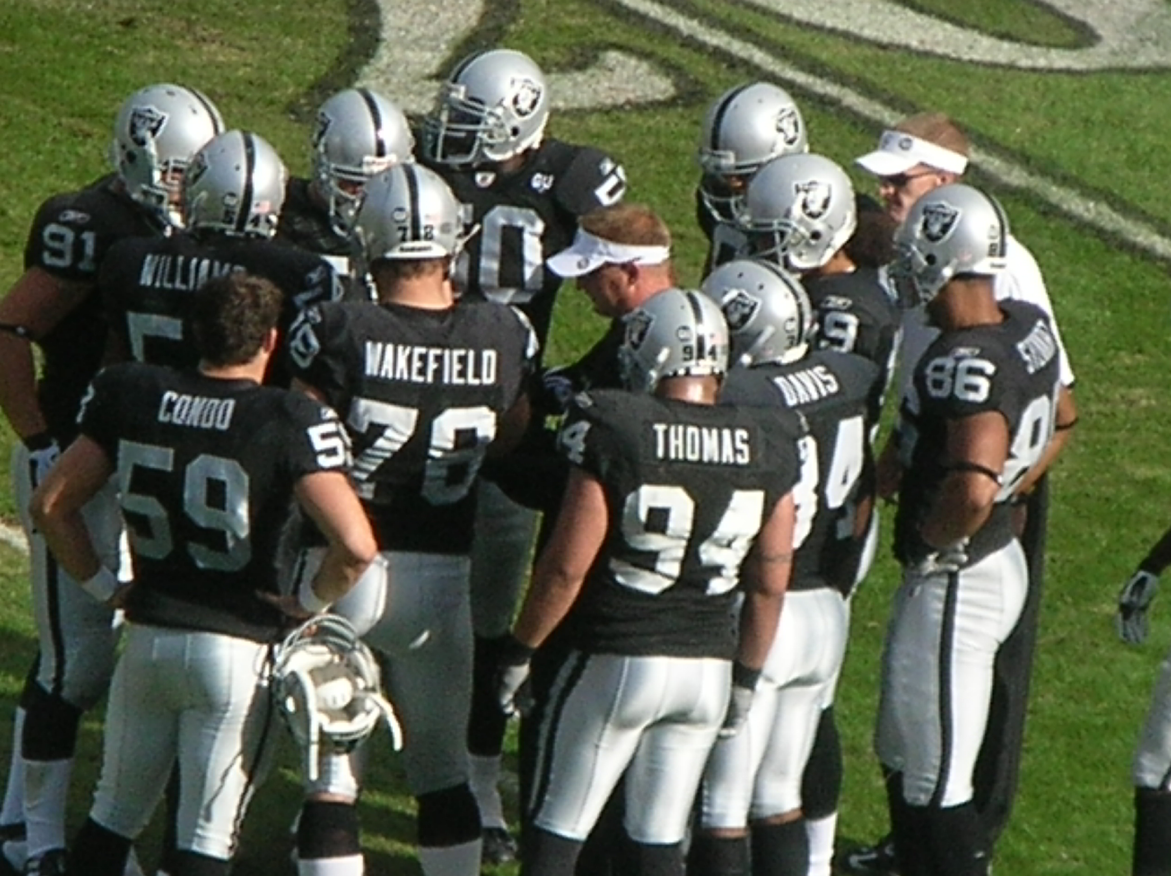 The Raiders in the a huddle during a home game against the Atlanta Falcons. The Falcons won 24-0.